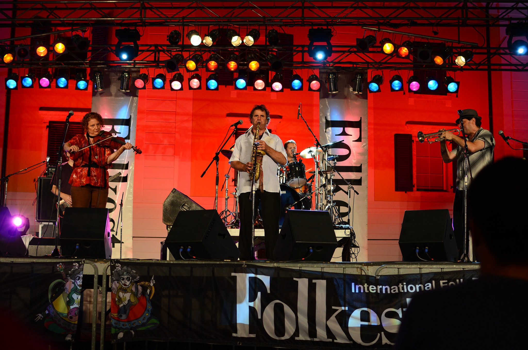 The Klezmatics at 2012 Folkfest